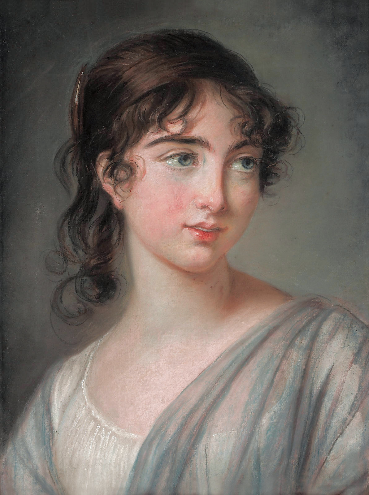 Corisande Armandine Léonie Sophie de Gramont (1782-1865) married Charles Augustus, 5th Earl of Tankerville in 1806